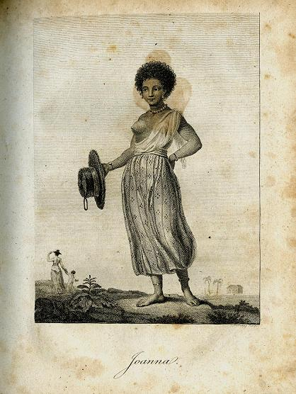 Stedman's wife Joanna, from Stedman's original Narrative.